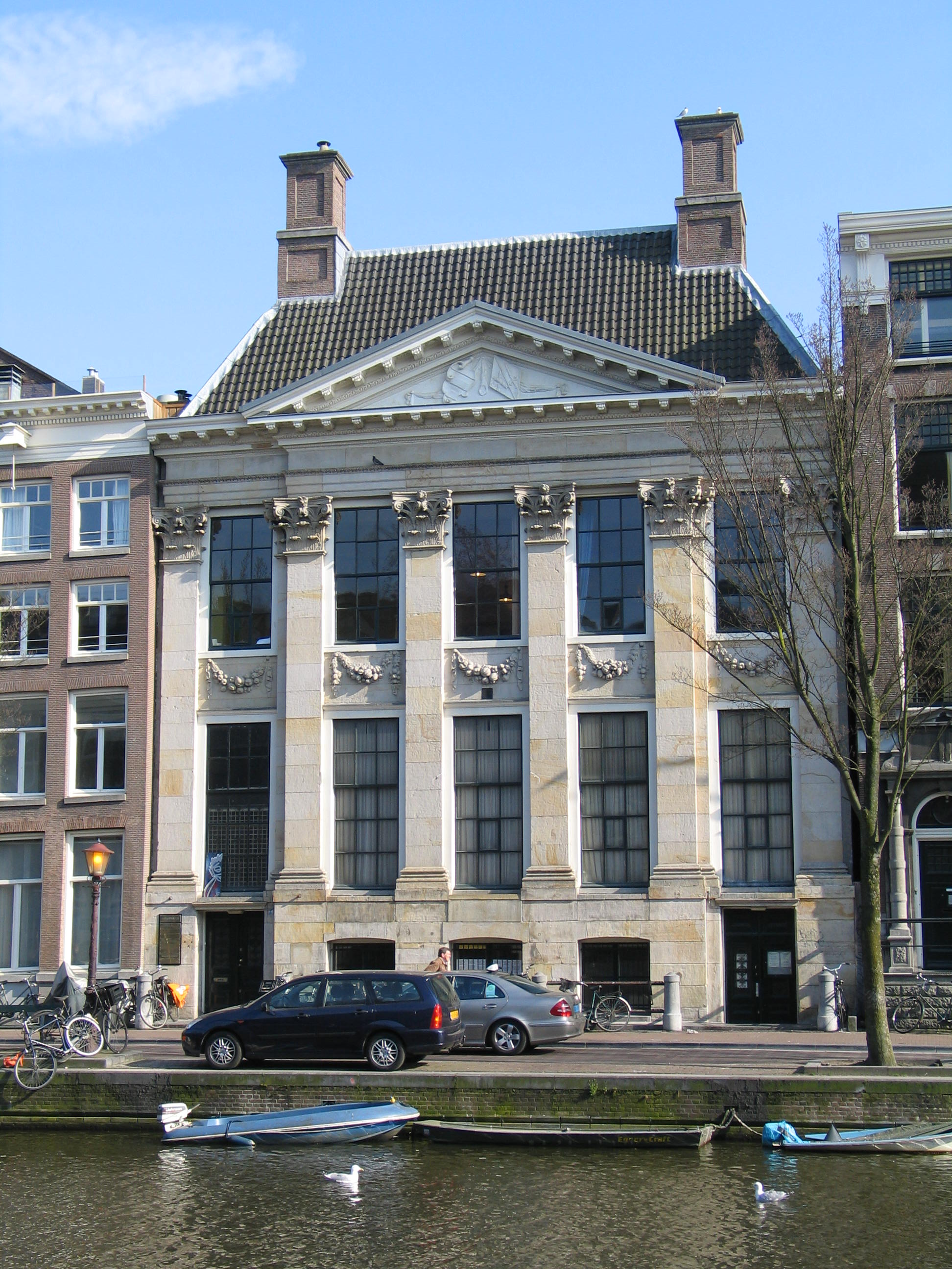 Canal house in Amsterdam, designed by Philip Vingboons, on Kloveniersburgwal 95